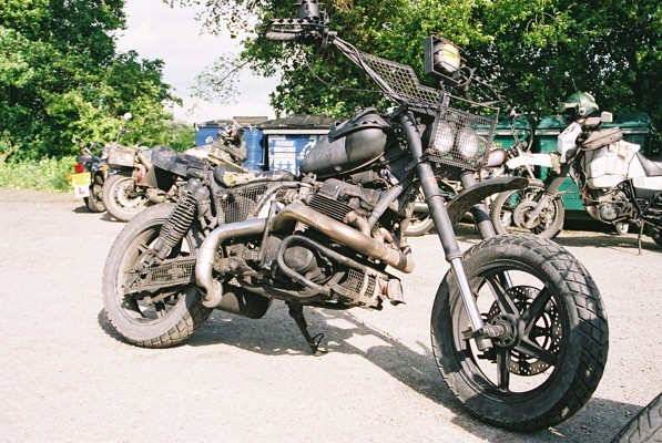 Pictured at the UK Rat and Survival Bike rally of 2005, this is more of a survival bike than a rat bike - though there is no firm distinction and it could be argued to be in either or both categories. Note the exhaust system; exhaust systems are good subjects for mechanical art.